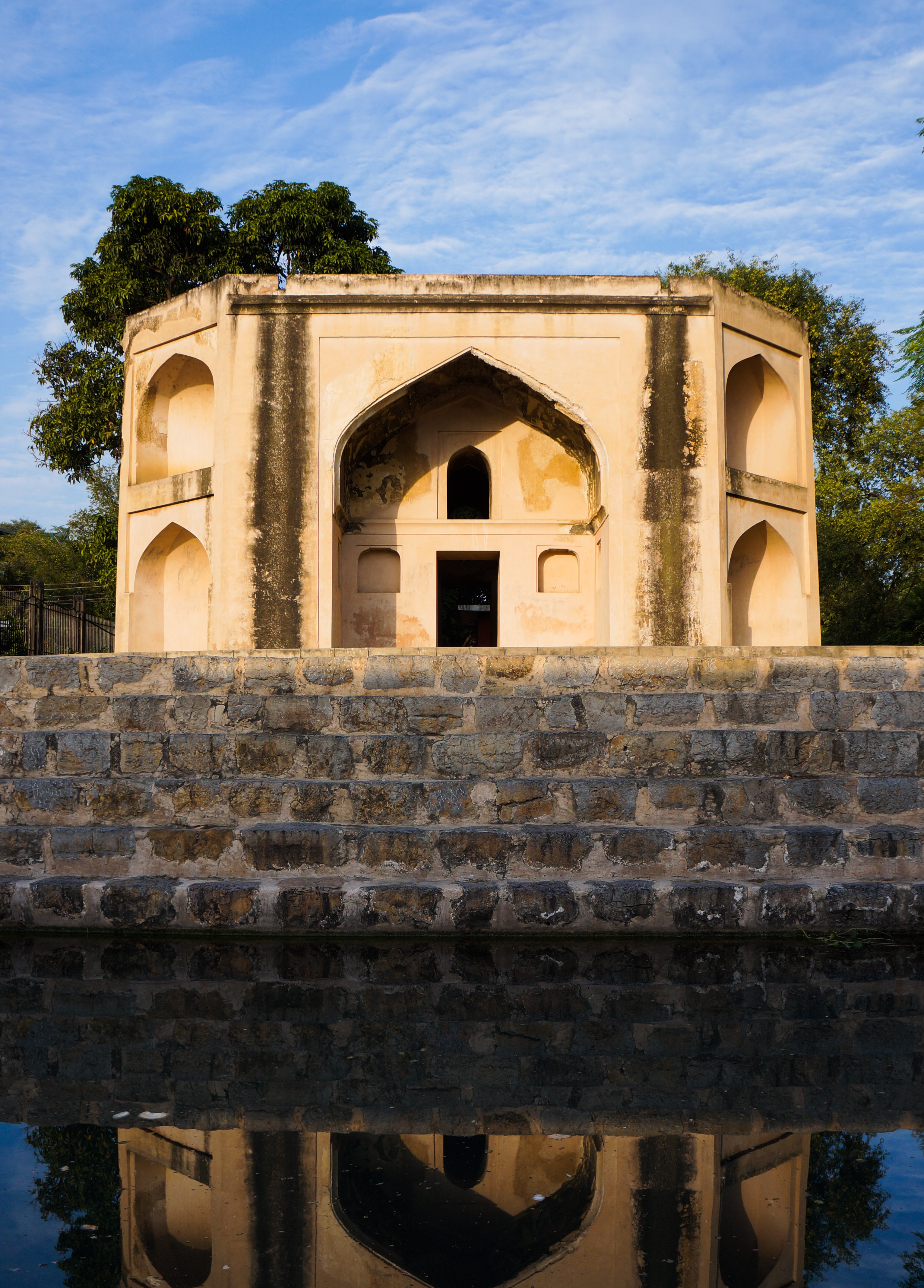 Hakimon ka Maqbara This is a photo of a monument in Pakistan identified as the PB-2